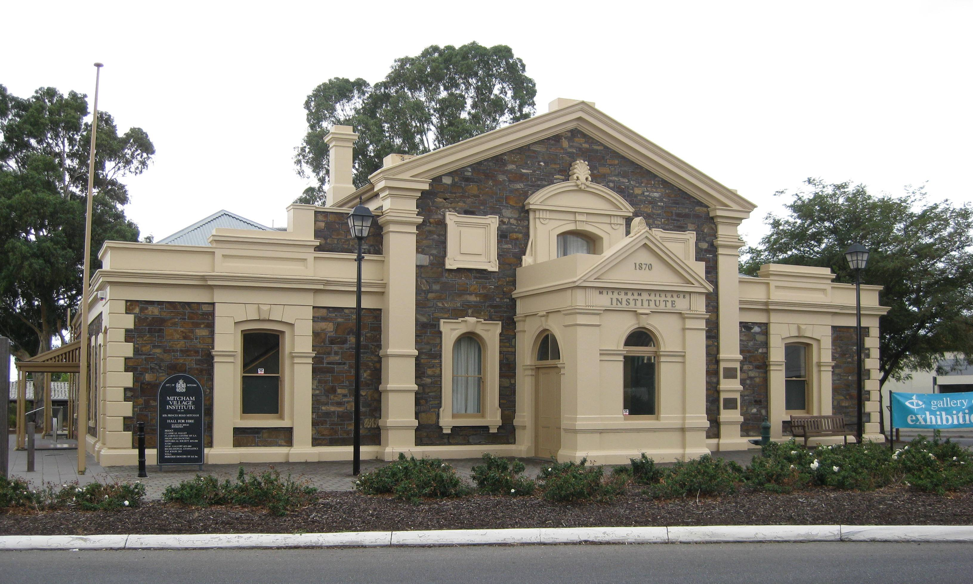 Mitcham Village Institute, Princes Road, Mitcham. Built in 1870.